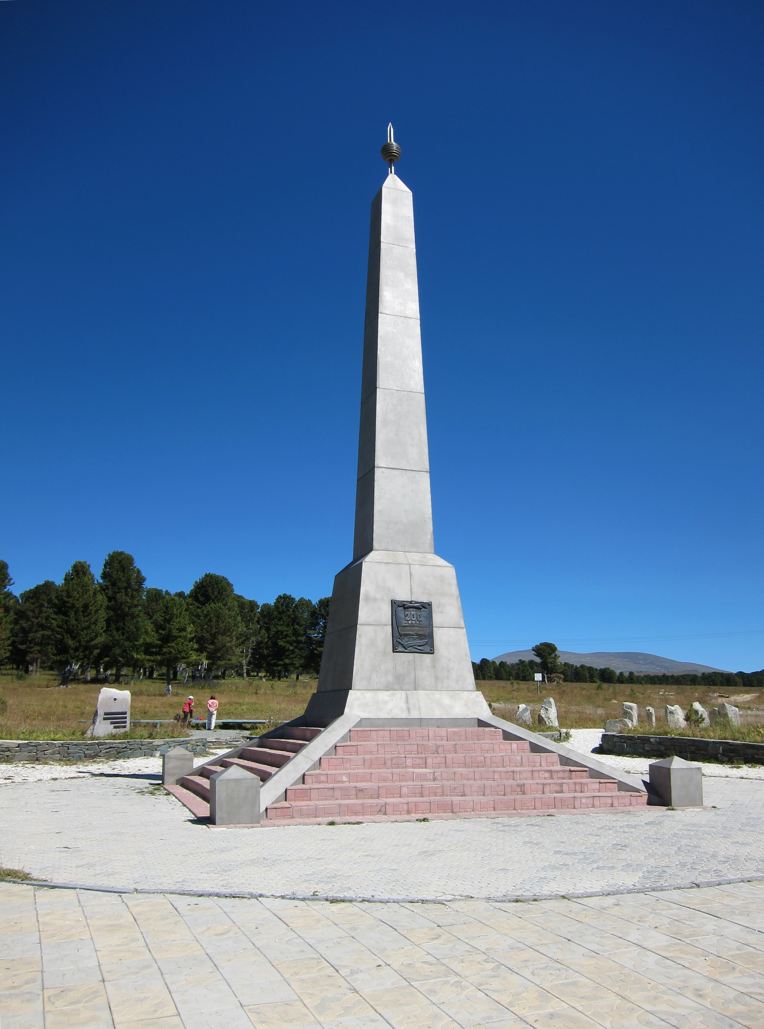 Obelisk on Seminsky Pass built in commemoration of the 200th anniversary of Altai's inclusion into Russia